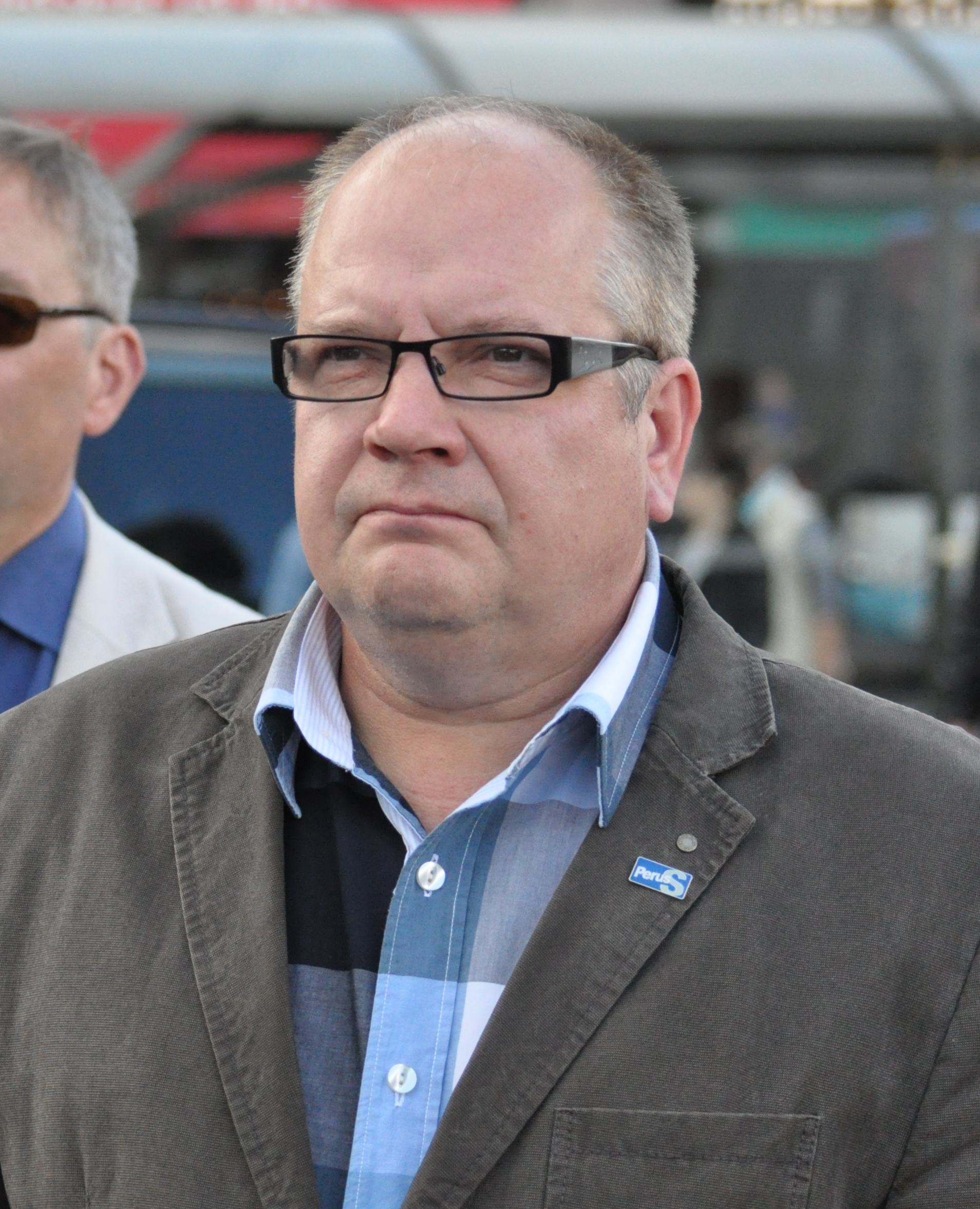 Finnish MP Kaj Turunen in Turku, 2011.